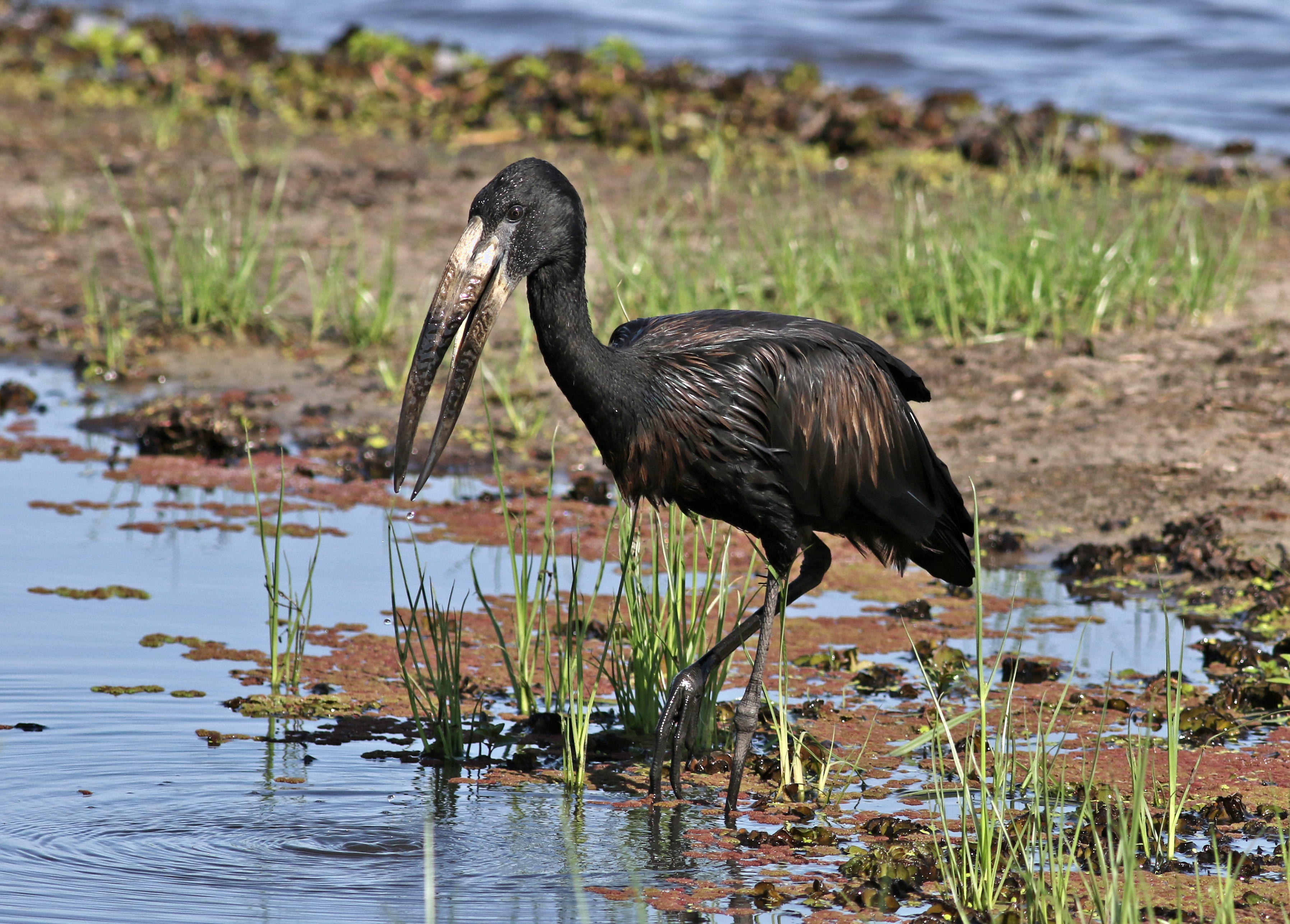 African openbill, Anastomus lamelligerus, Chobe National Park, Botswana